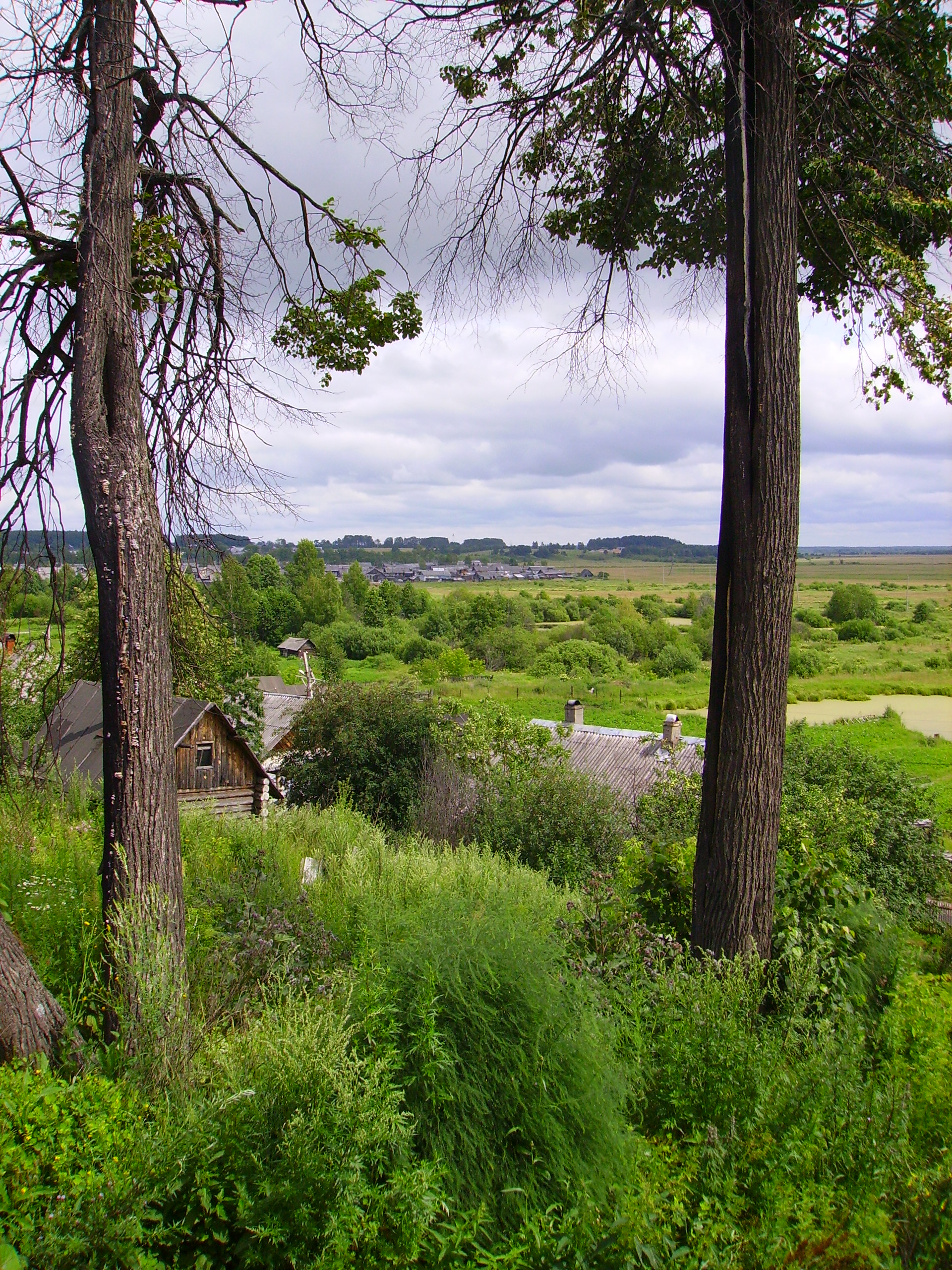 Flood plain of Usta River